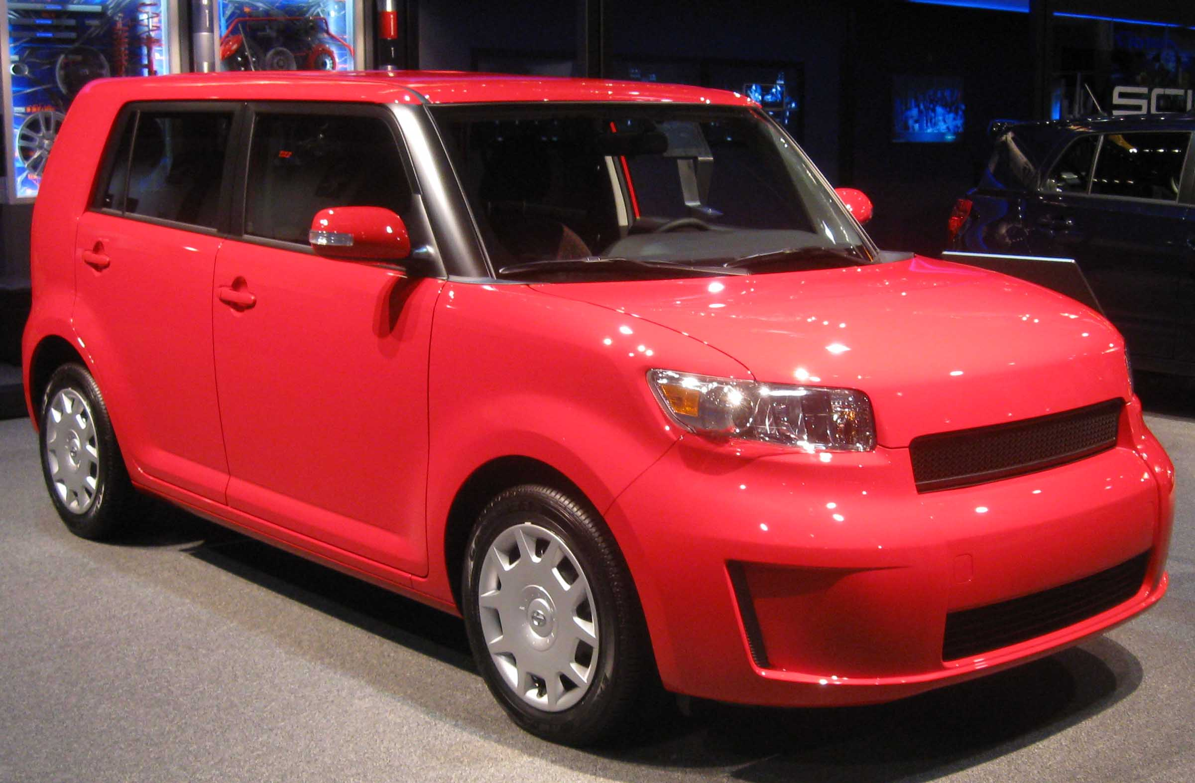 2009 Scion xB photographed at the 2009 Washington DC Auto Show.